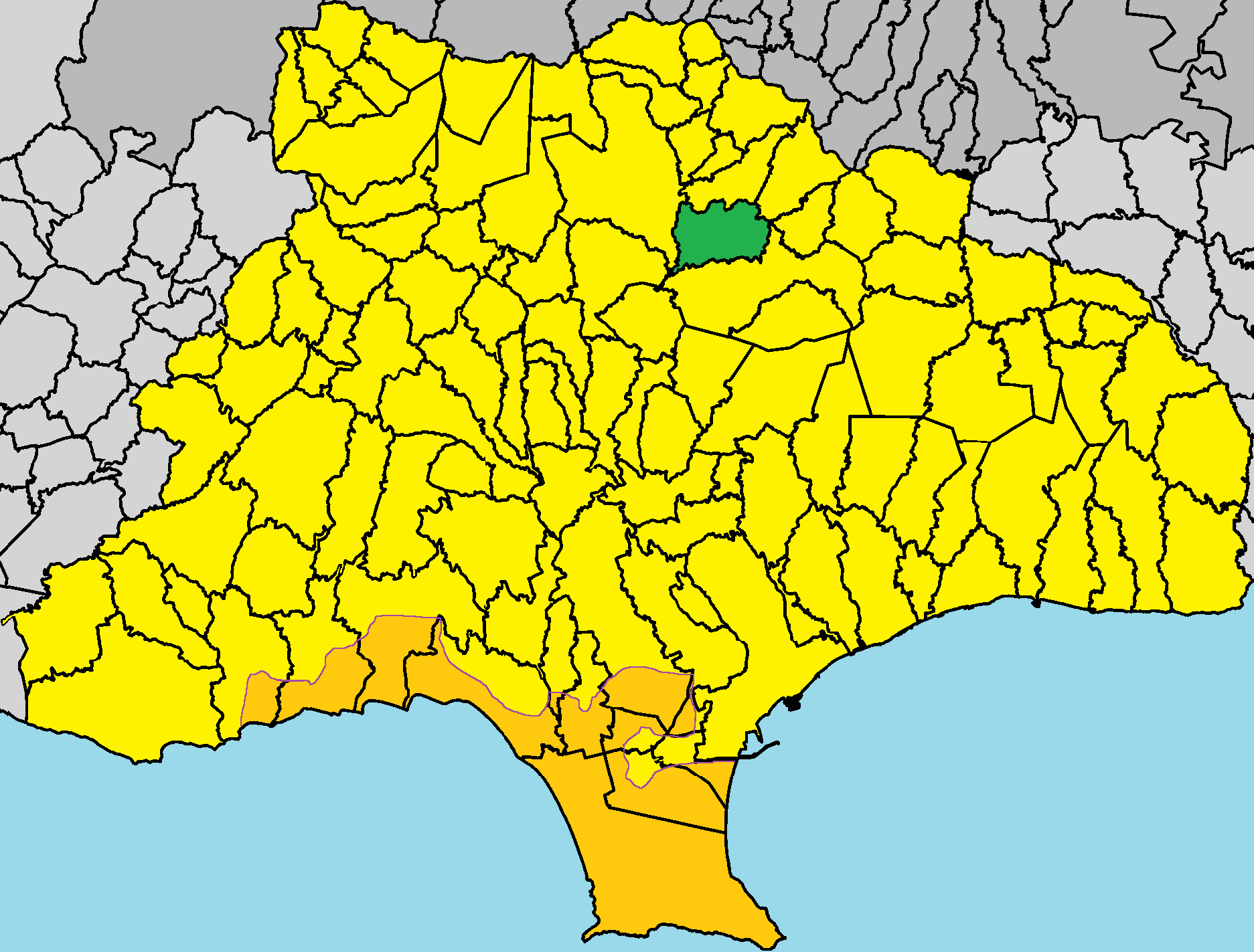 Zoopigi in Limassol District.